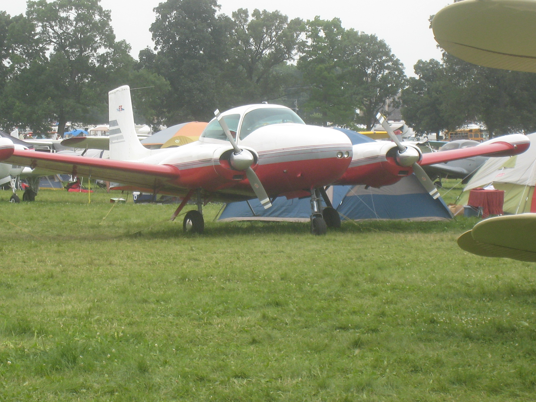 TEMCO-Riley's D-16A Riley '55 Production Serial Number TTN-39 built February 9, 1955